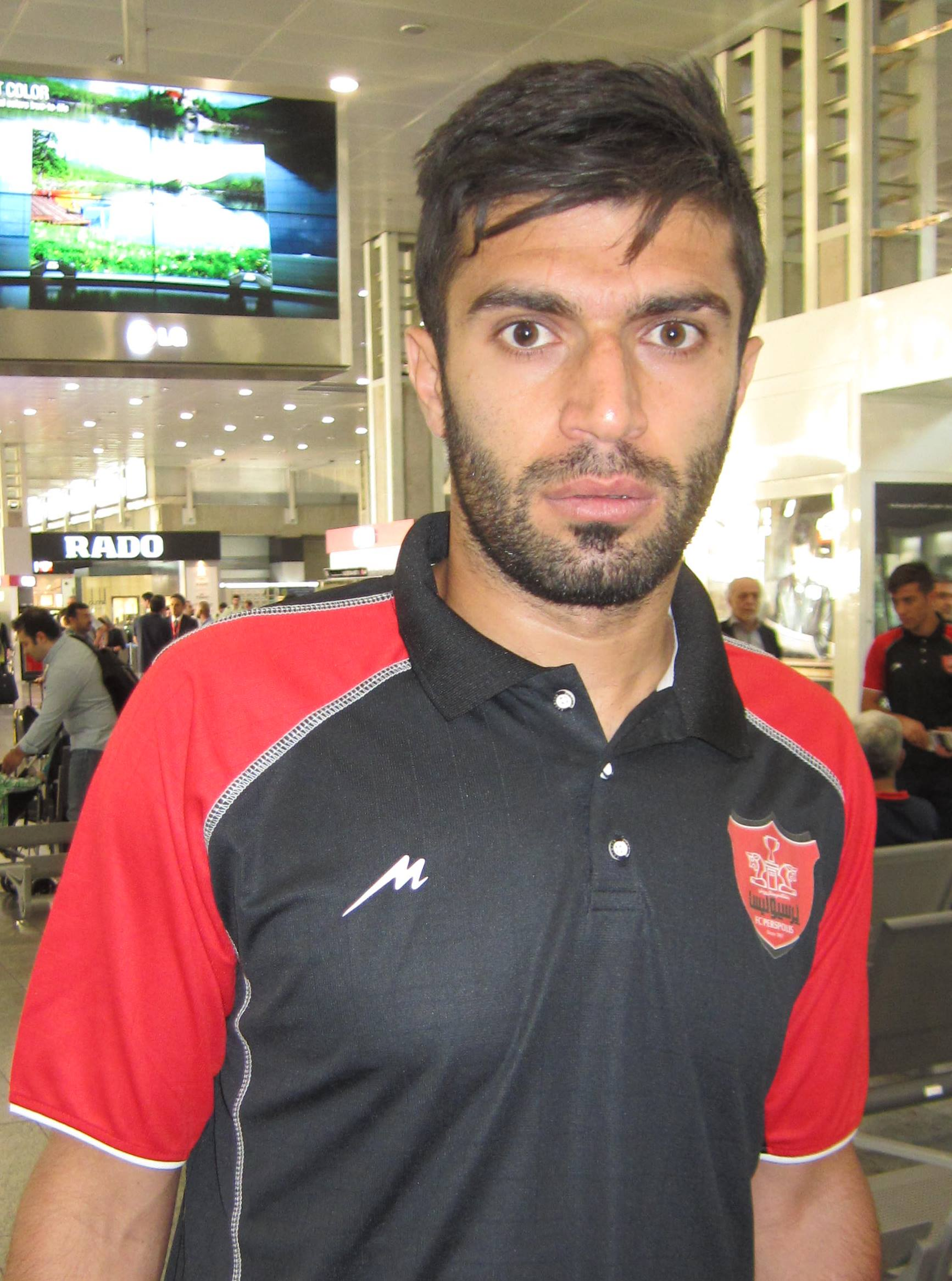 Mehrdad Kafshgari at Tehran Imam Khomeini International Airport